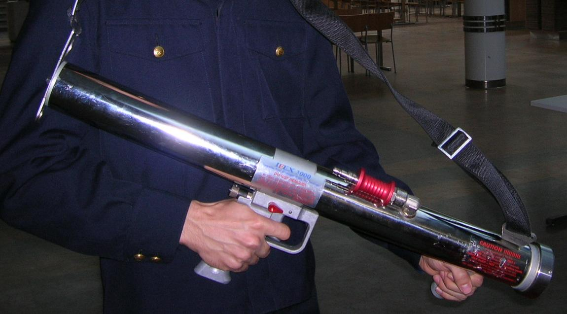 IFEX (Impulse Fire Extinguisher System) impulse gun on display at the FSBR seminar 2007 in Finland. The extinguisher usually comes together with a backpack. The backpack holds 13 litres of water and has a 2 litre compressed air bottle. When the gun is fired, the air preassure forces all the water out at great speed (120 m/s) in very tiny drops that very effectivly puts the fire out. It can put out fires using very little water. The impulse gun itself holds 1 litre of water. The recharge time is 2-3 seconds, it can be fired before it has been completly filled for more rapid operation, particulary usefull once the flames have been quenched. The system also works with other extinguishing agents and mixes.